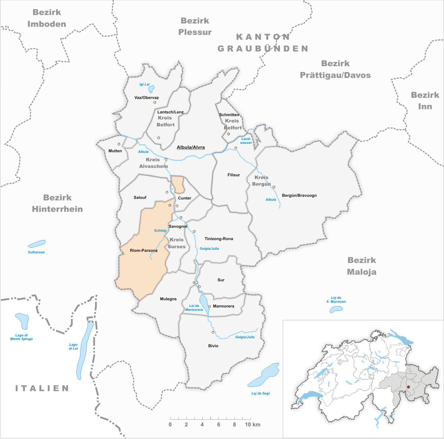 Municipality Riom-Parsonz